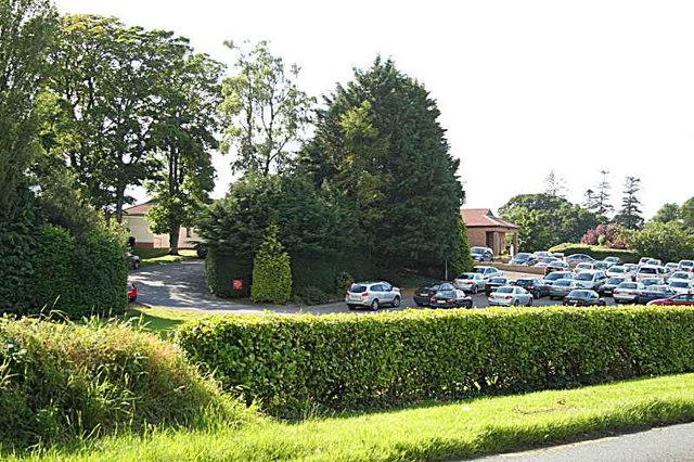 Mullingar Golf Club car park Car park of Mullingar Golf Club on the N52, 5Km S of Mullingar.